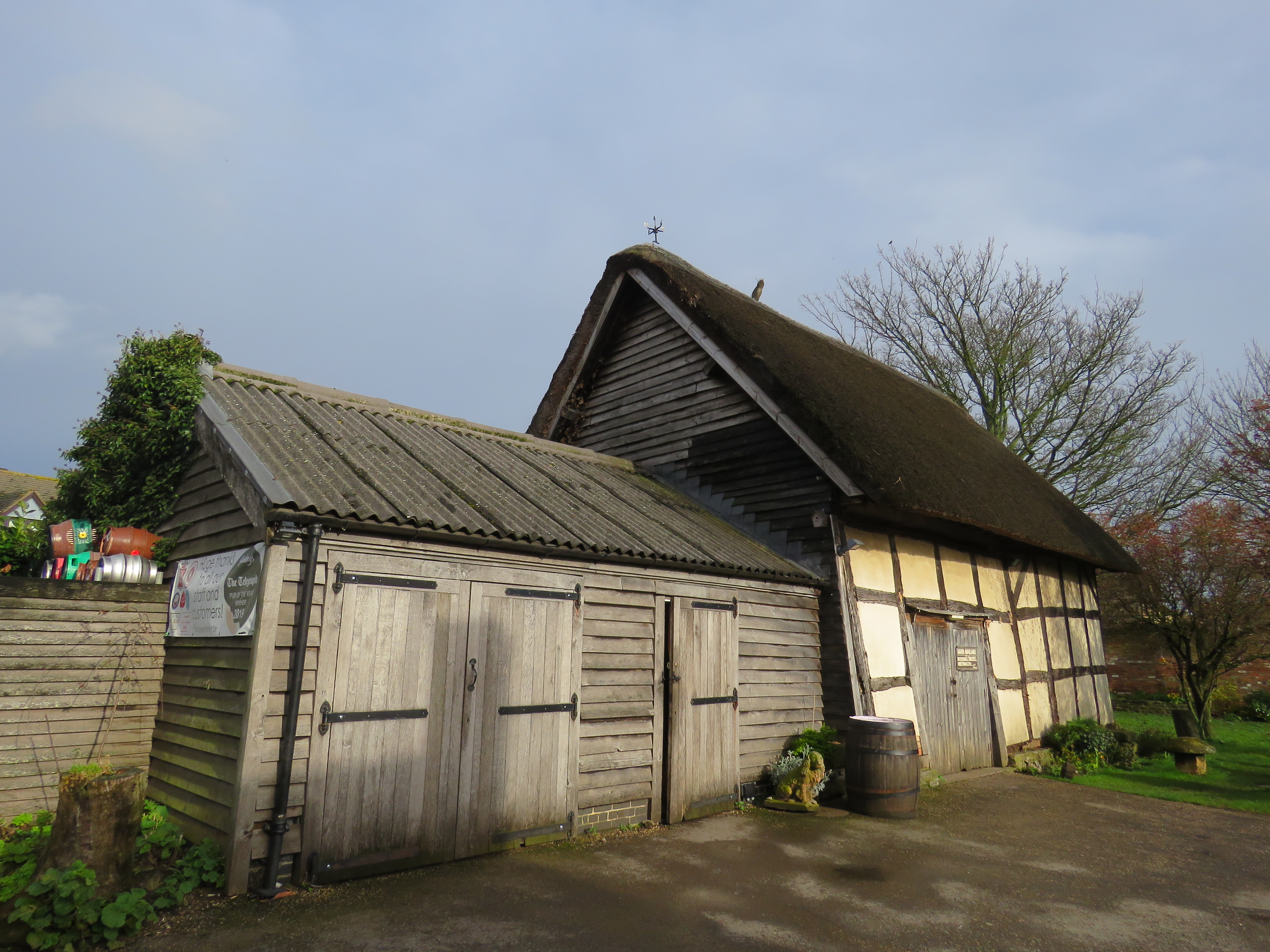 Barns,, Fleece Inn, Bretforton, Worcestershire